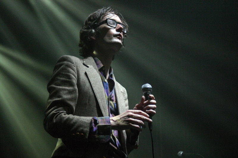 Jarvis Cocker Webster Hall, New York, NY April 23, 2007 Photo by Erin Chandler